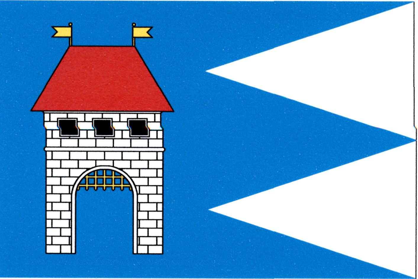 Municipal flag of Škvorec , District Prague-East, Czech Republic